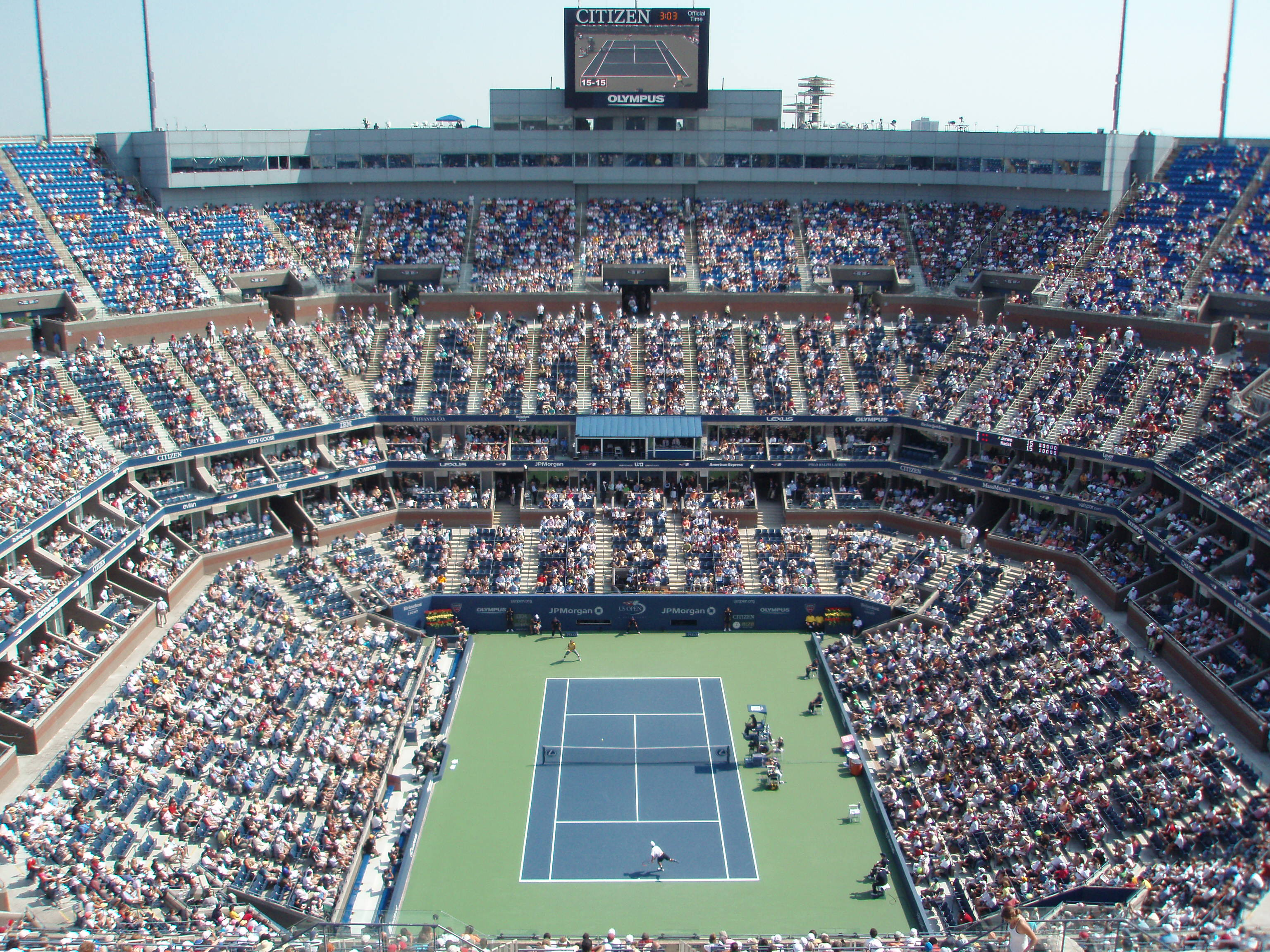 Interior Of Arthur Ashe Stadium During 2007 US Open